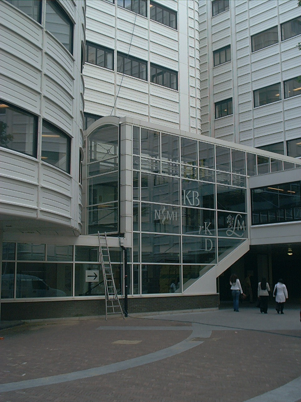 Royal Library in the Hague